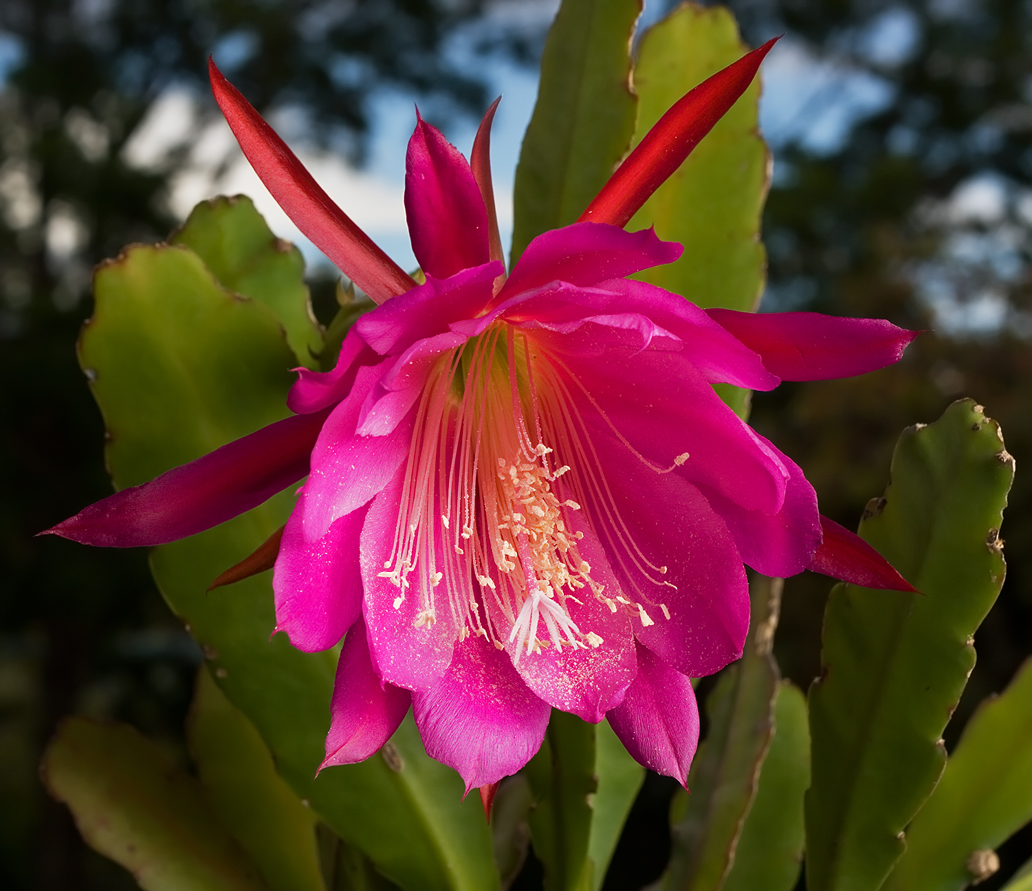 Epiphyllum 'Wendy' cultivar